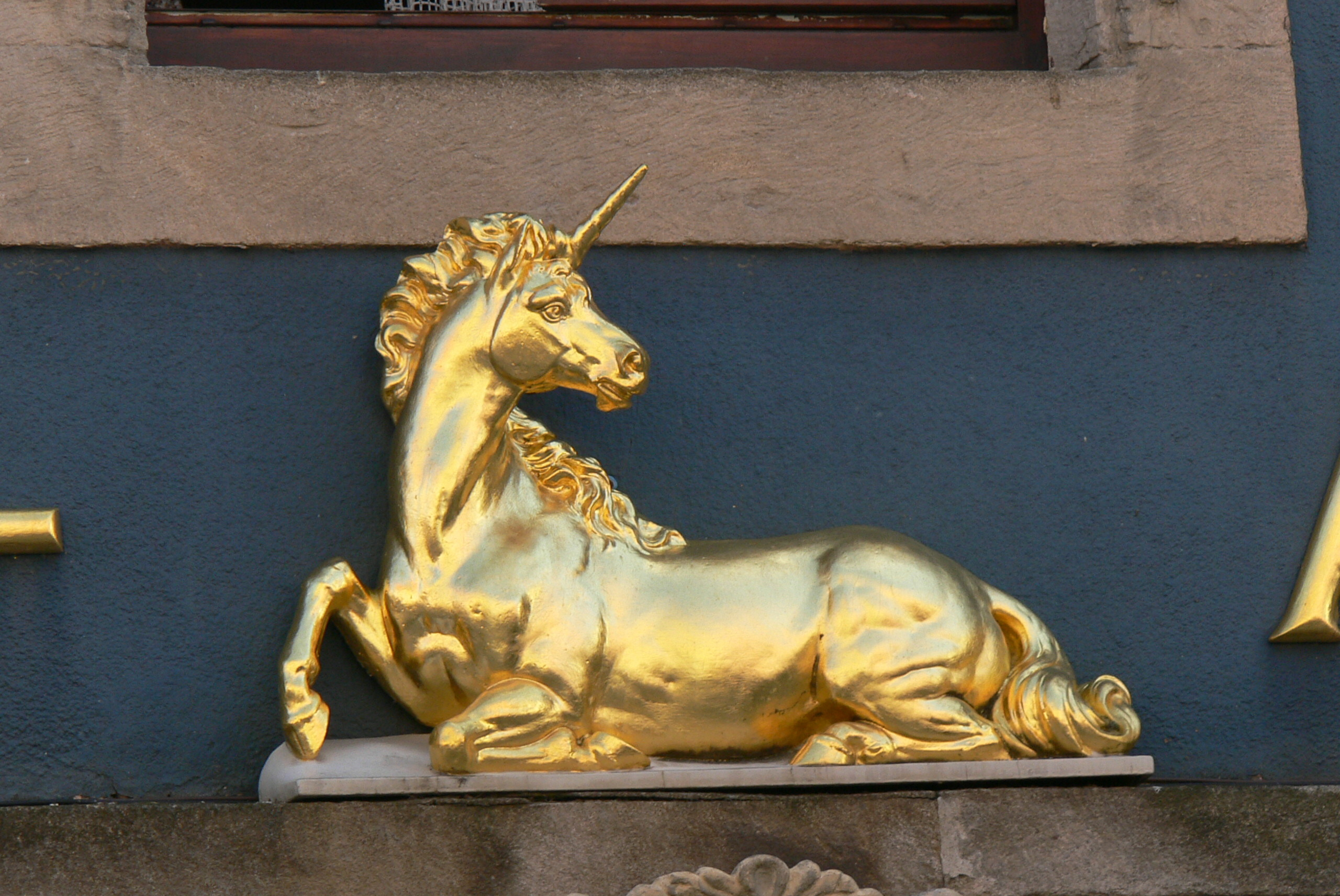 Weißenburg ( Bavaria ). Blue House ( 1765 ): Unicorn.